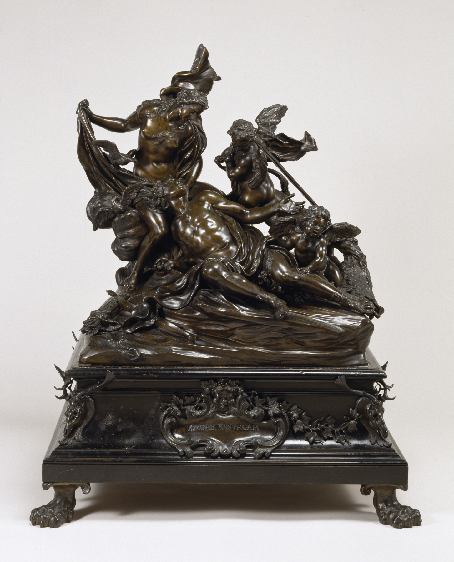 In this subject taken from ancient Greco-Roman mythology, the beautiful hunter Adonis, mortally wounded by a wild boar, is mourned by his lover Venus, goddess of love. The tragedy is rendered with great delicacy and concentrates on the intimate moment of the last farewell. Heightened emotion is imaginatively conveyed by the turbulence of the fluttering drapery and the inherent instability of the angle at which the body rests. Superb craftsmanship in the final chasing of the surface creates rich textures and details. The composition often parallels with the artist's "Dead Christ Mourned by the Virgin" (Walters 54.1066). Soldani, who was employed by the Medici court in Florence, often designed elaborate bases for his works. This exceptional example features detailing with a hunting motif and an inscription in Latin, reading "Through love, I may resurrect," alluding to the transformation of the blood of the dying Adonis into red anemones.